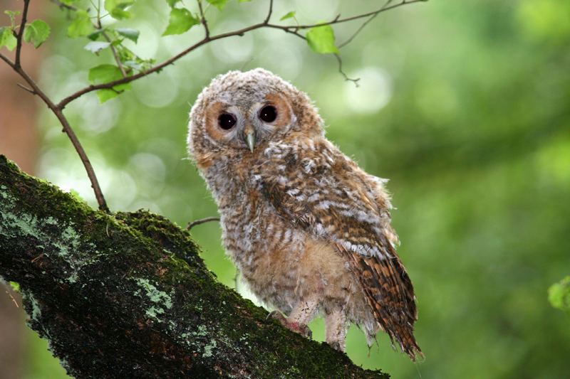 Juvenile Strix aluco in the "Kloosterbos" between Hattem and Wapenveld, the Netherlands, 27 May 2006.